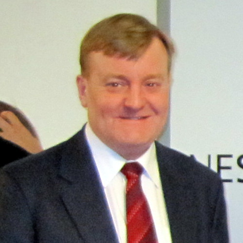 crop from photo described as 'Charles Kennedy came to say hello! From